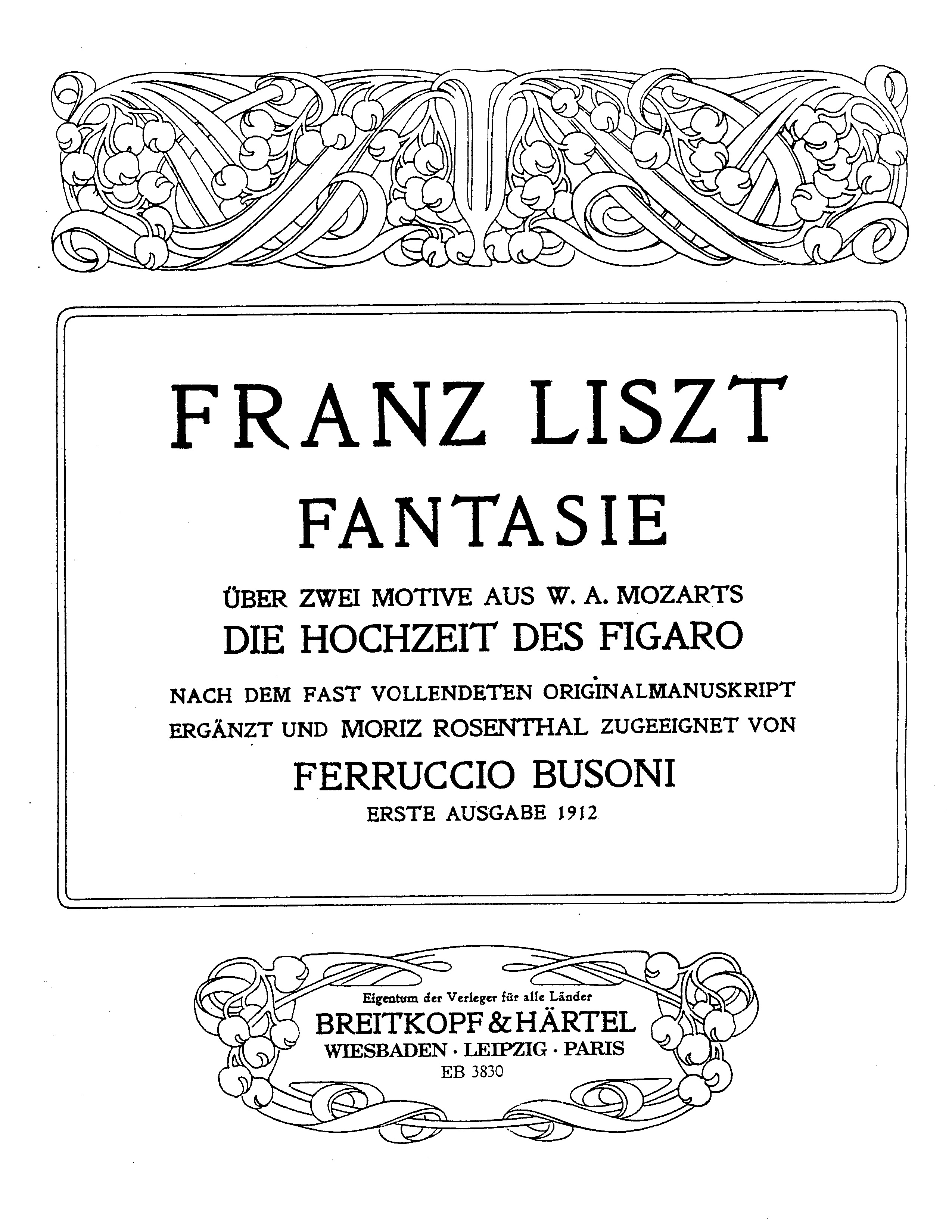 Title page of Franz Liszt's "Fantasie über zwei Motive aus W. A. Mozarts Die Hochzeit des Figaro" as completed and arranged by Ferruccio Busoni